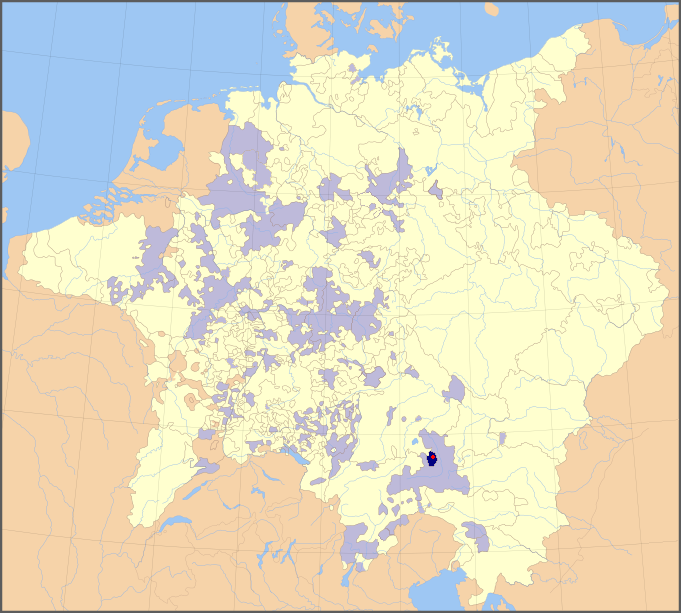 Map of the Holy Roman Empire, 1648, with the territories belonging to the prince-provost of Berchtesgaden highlighted